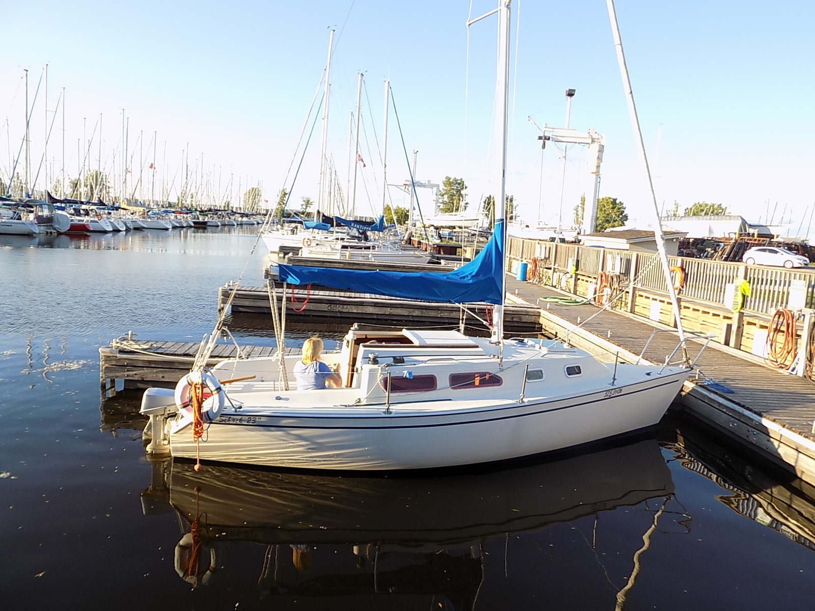 A Schock 23 sailboat.